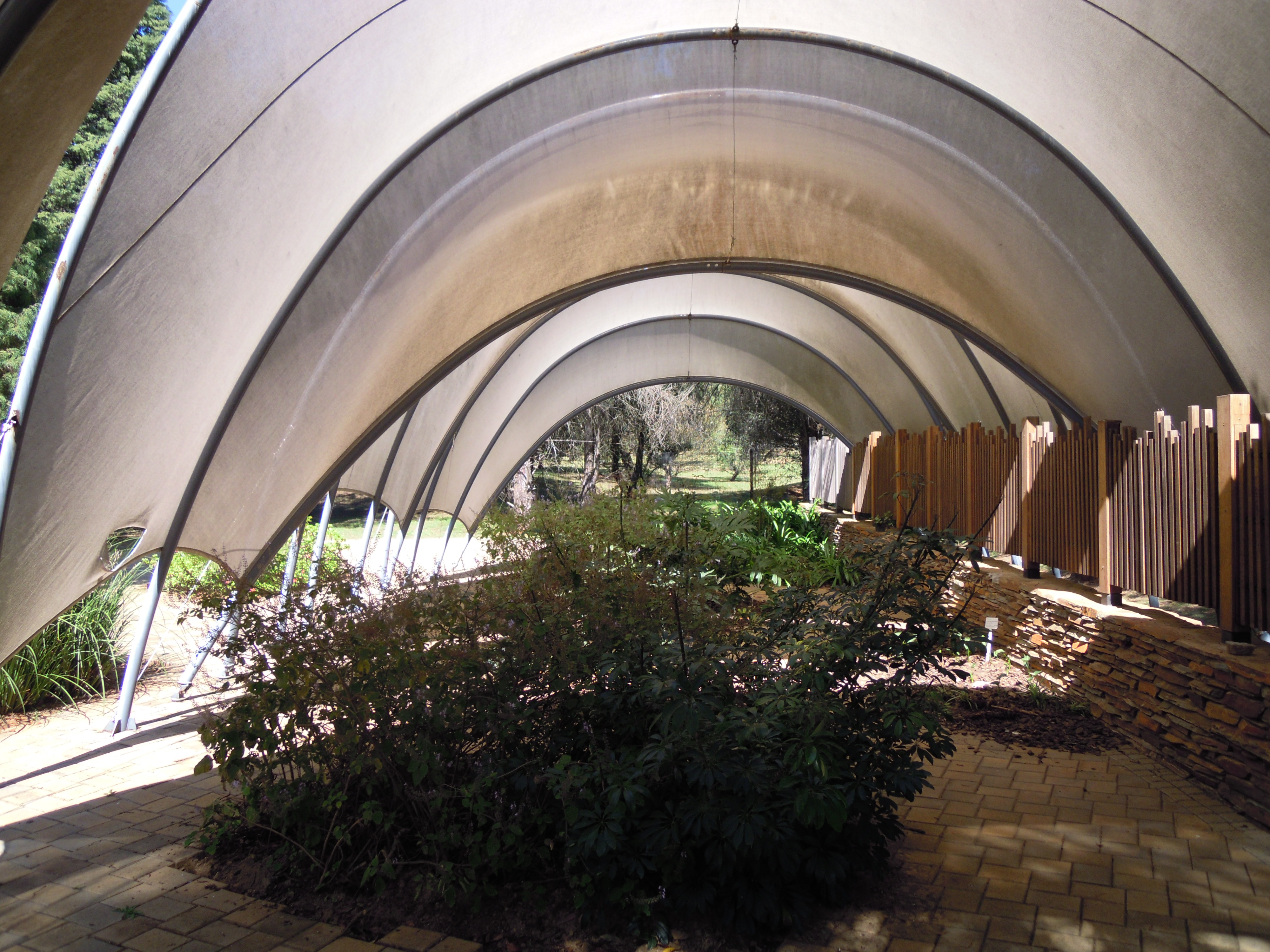 The proposed prehistoric garden in die Johannesburg Botanical Gardens